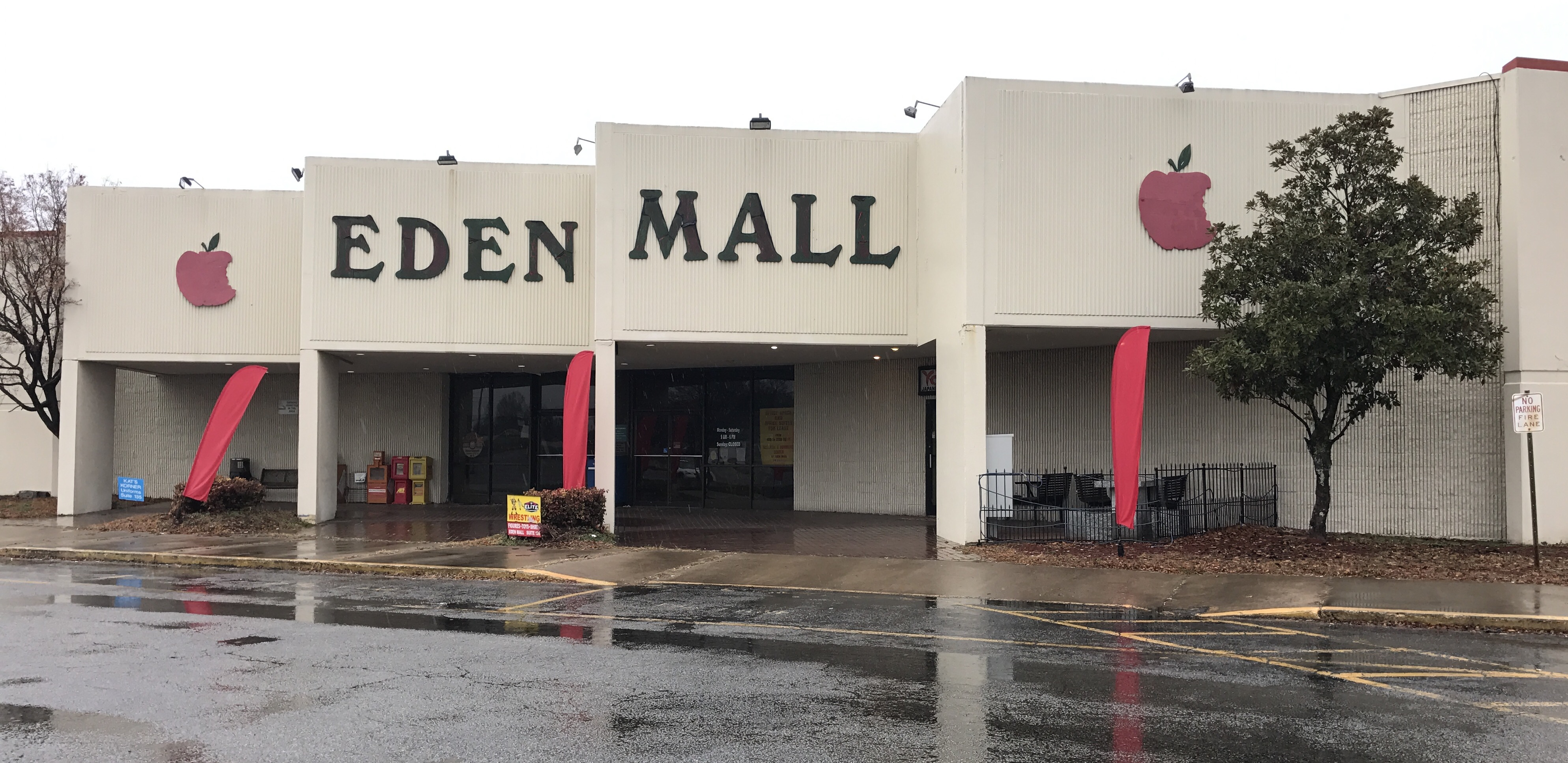 Main entrance of Eden Mall